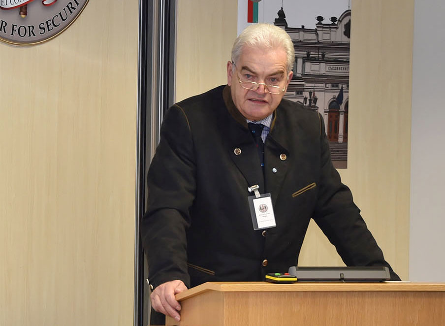 Retired German Heer (Army) Brig. Gen. Johann Berger. German deputy at the George C. Marshall European Center for Security Studies, welcomes 11 members of Parliament from Bulgaria to the Tailored Seminar for Members of Parliament from Bulgaria: “Role of Parliament in Security Sector Governance and Oversight” Nov. 30 at the Marshall Center in Garmisch-Partenkirchen, Germany.